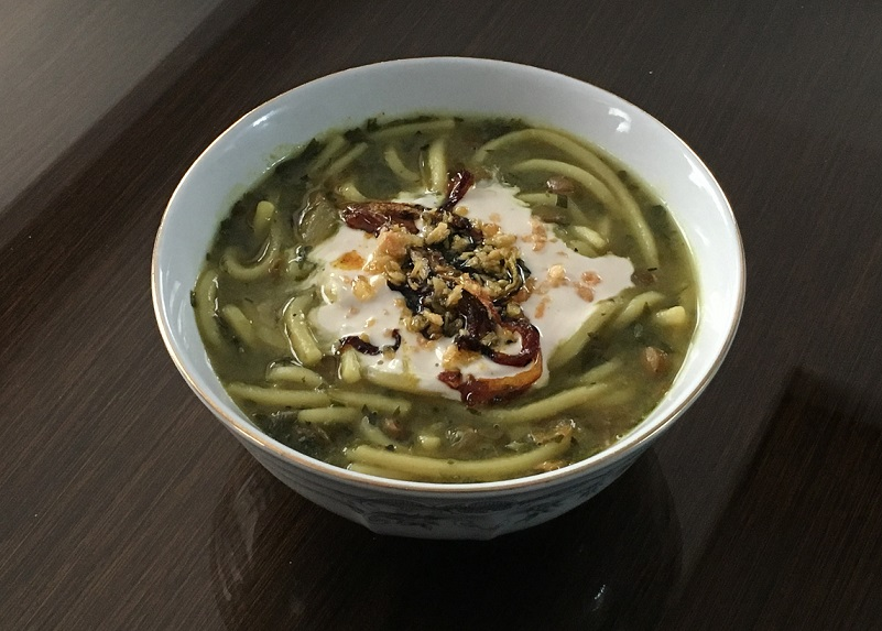 Ash e reshte, an Iranian traditional type of thick soup. Fārsi: Āš e rešte, yek jur sup e koloft e Irānig.